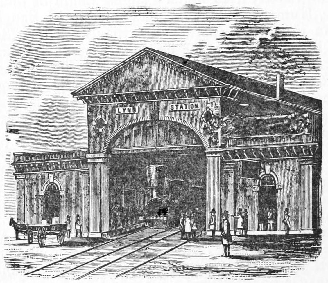 Woodcut(?) of the Lynn depot, which stood at Central Square between 1848 and 1872.